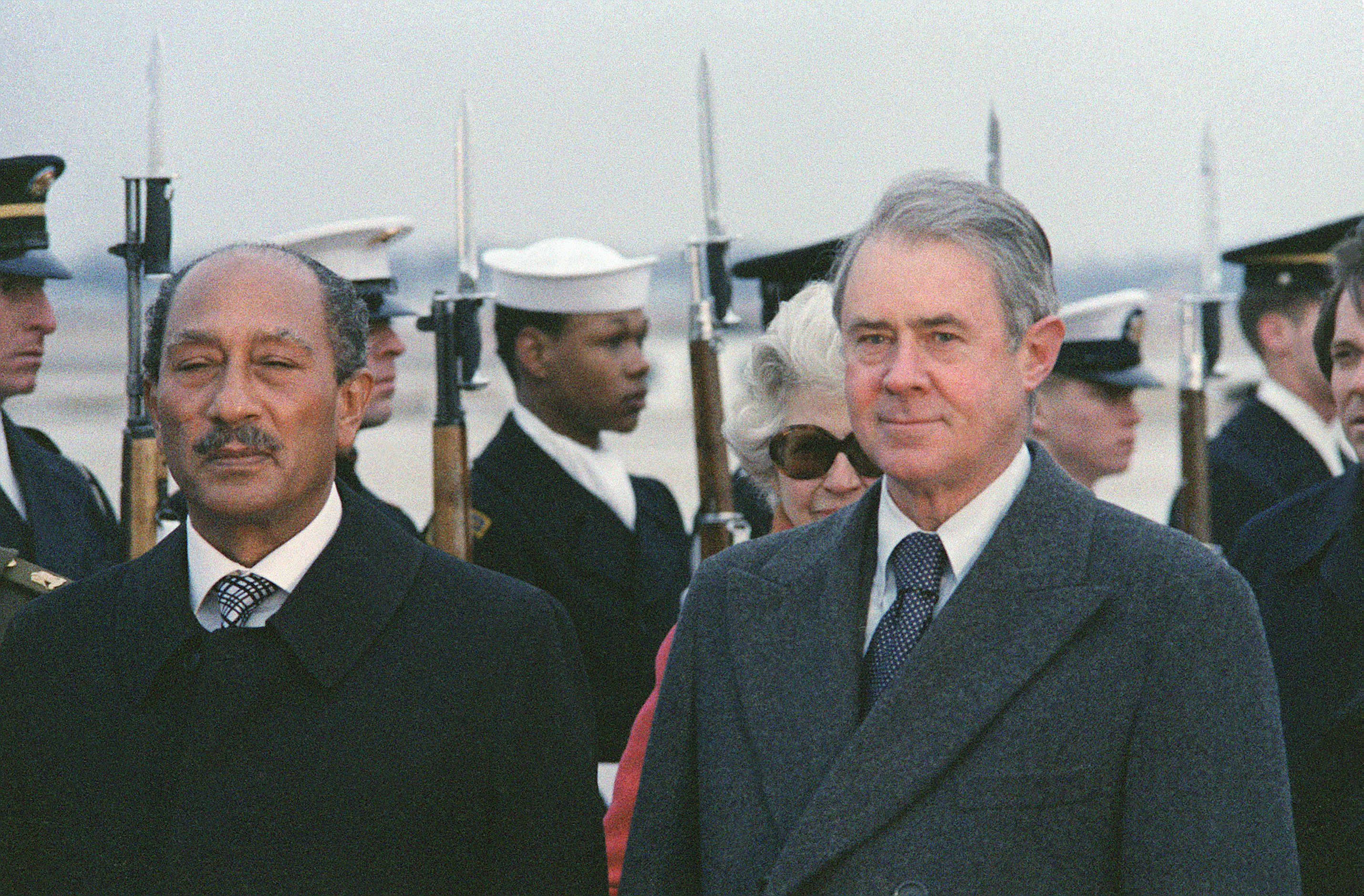 Egyptian President Anwar el-Sadat (left) receives military honors upon his arrival in the United States. He is accompanied by US Secretary of State Cyrus R. Vance (right).